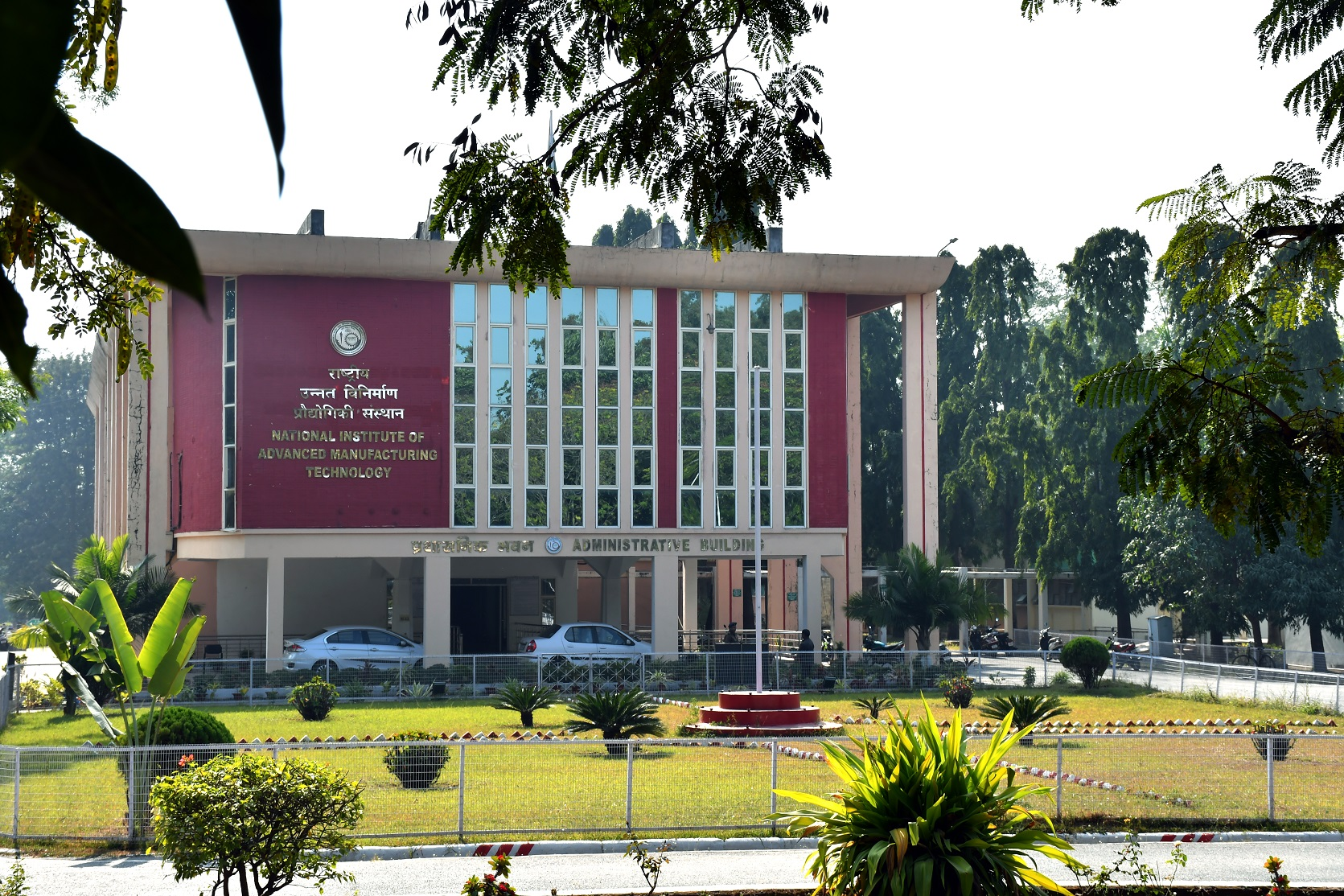 JPG